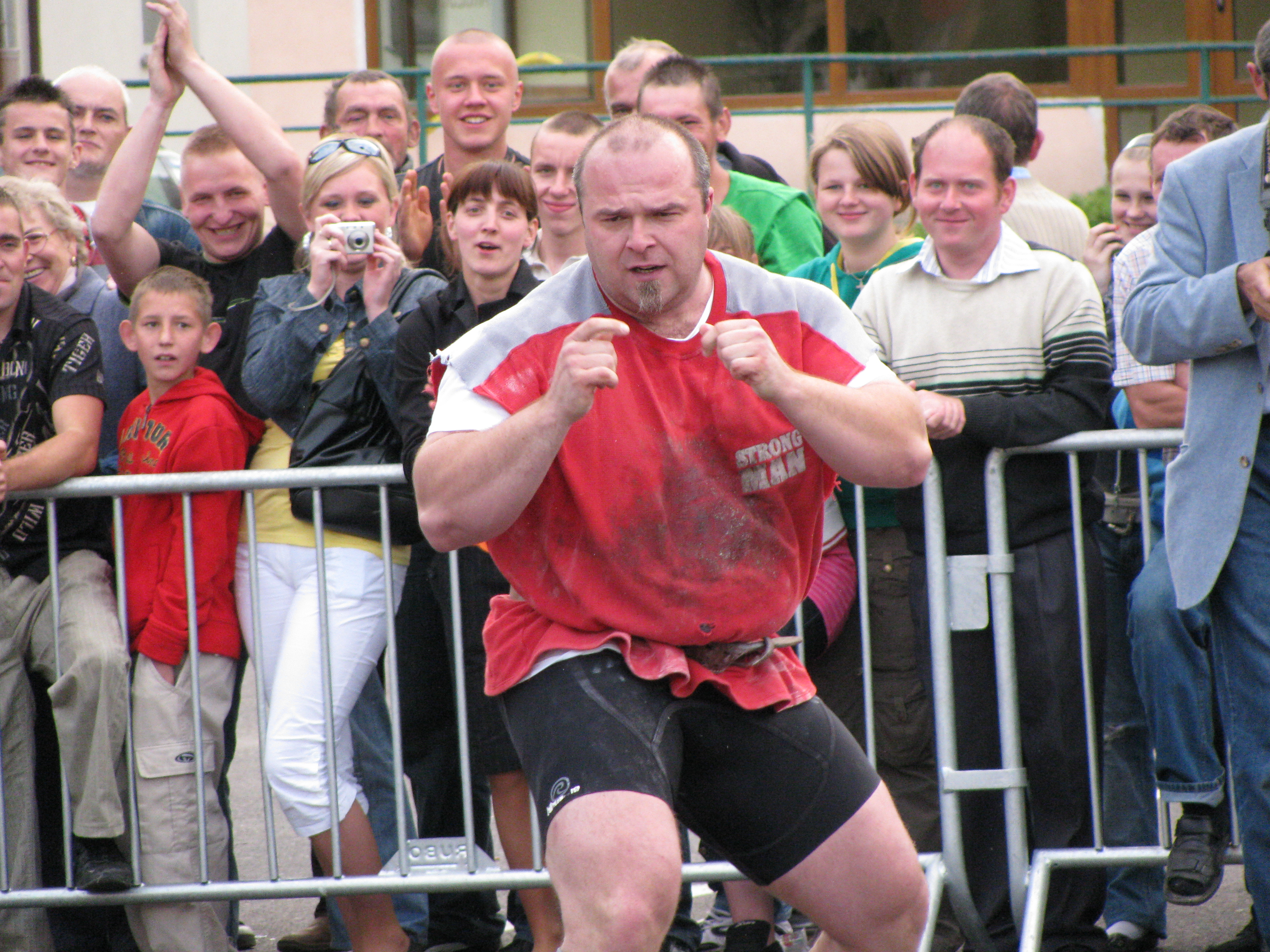 Lubomir Libacki - a strength athlete from Poland